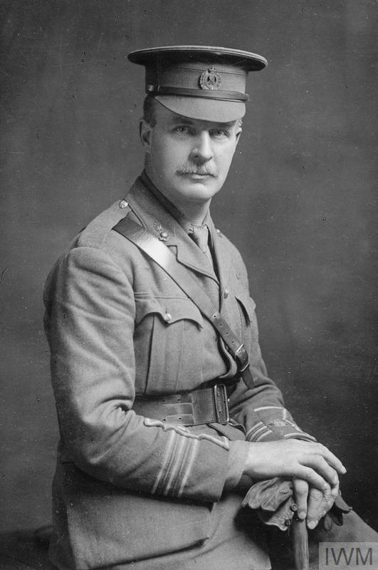 THE BATTLE OF PASSCHENDAELE, JULY-NOVEMBER 1917 Victoria Cross Awards, 31 July 1917: Clifford Coffin. Brigadier-General, Corps of Royal Engineers.